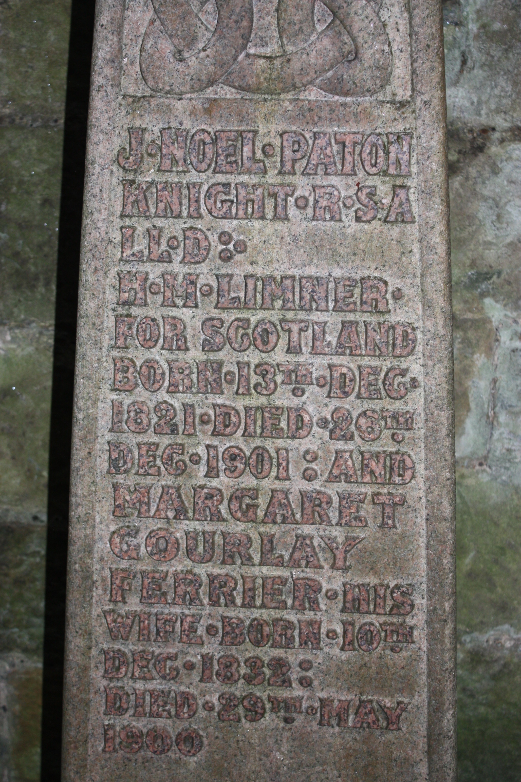 Grave of Joseph Noel Paton in Dean Cemetery